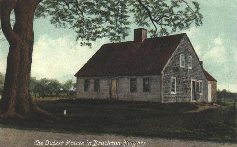 The oldest house in Brockton Heights, Massachusetts